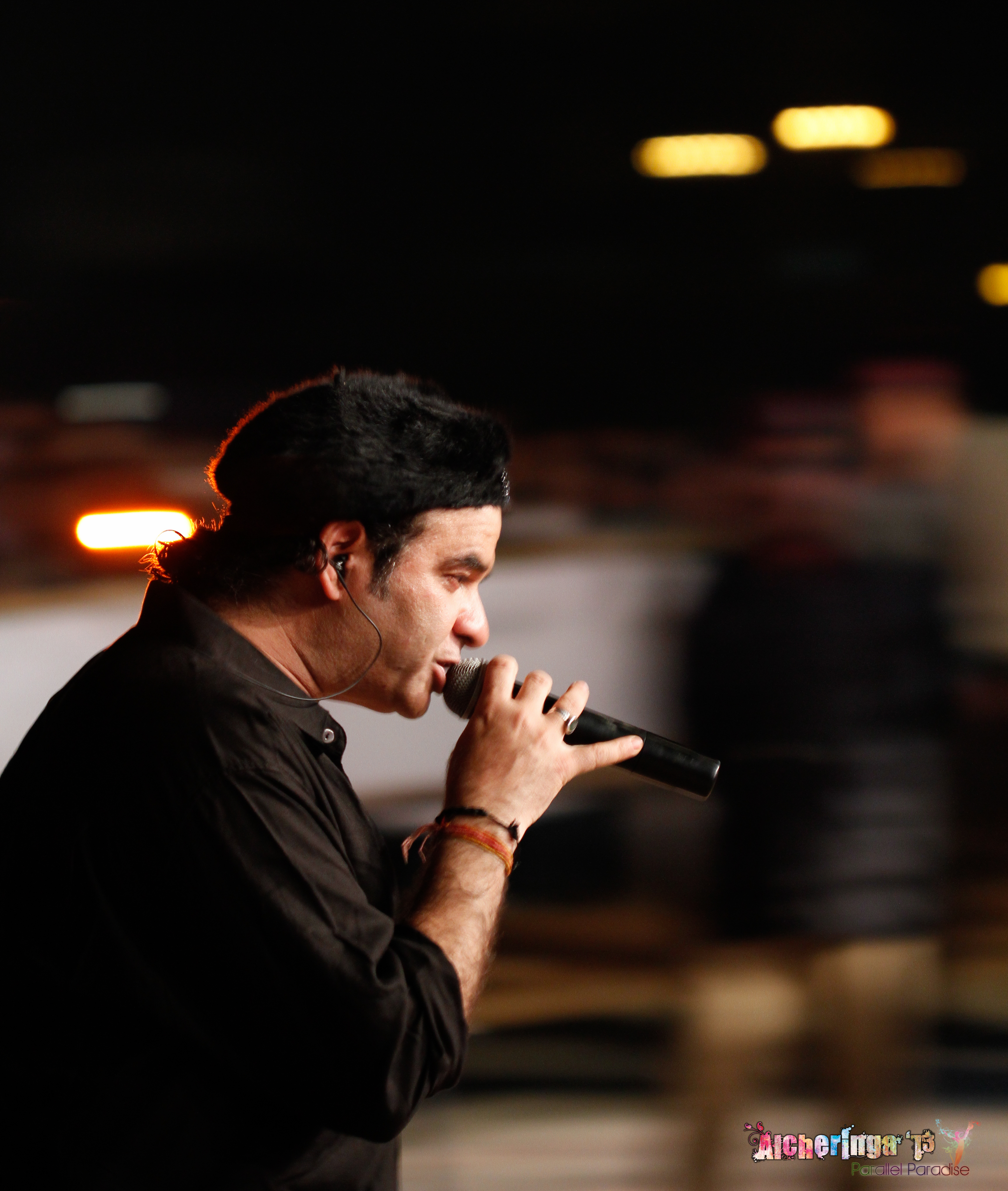 Other information nothing